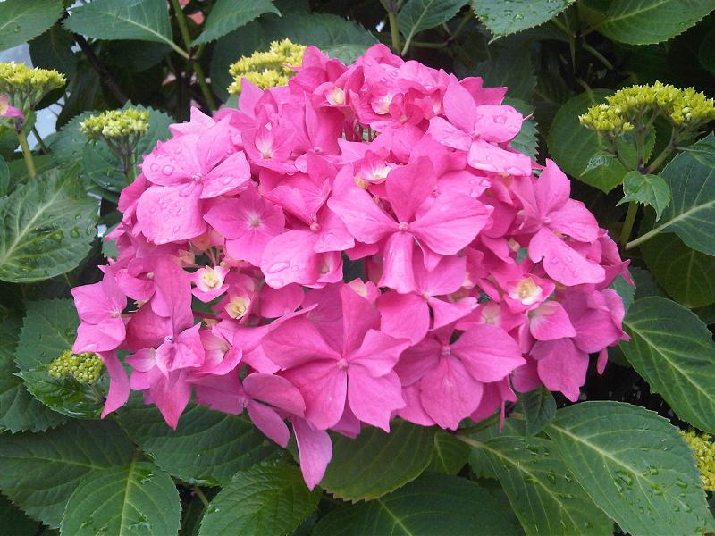 Hydrangea macrophylla 'Bouquet Rose' in London, England.